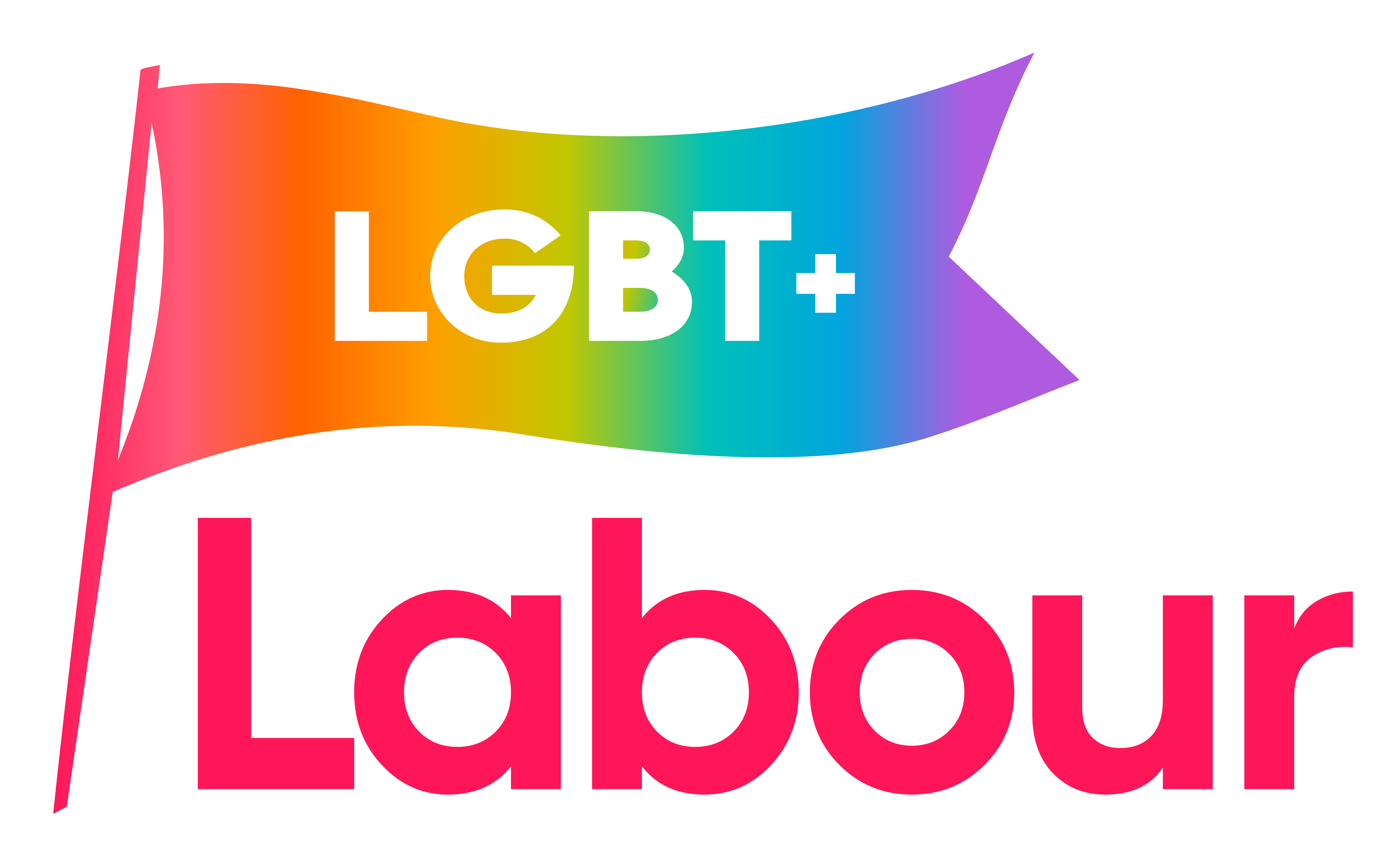 New LGBT logo